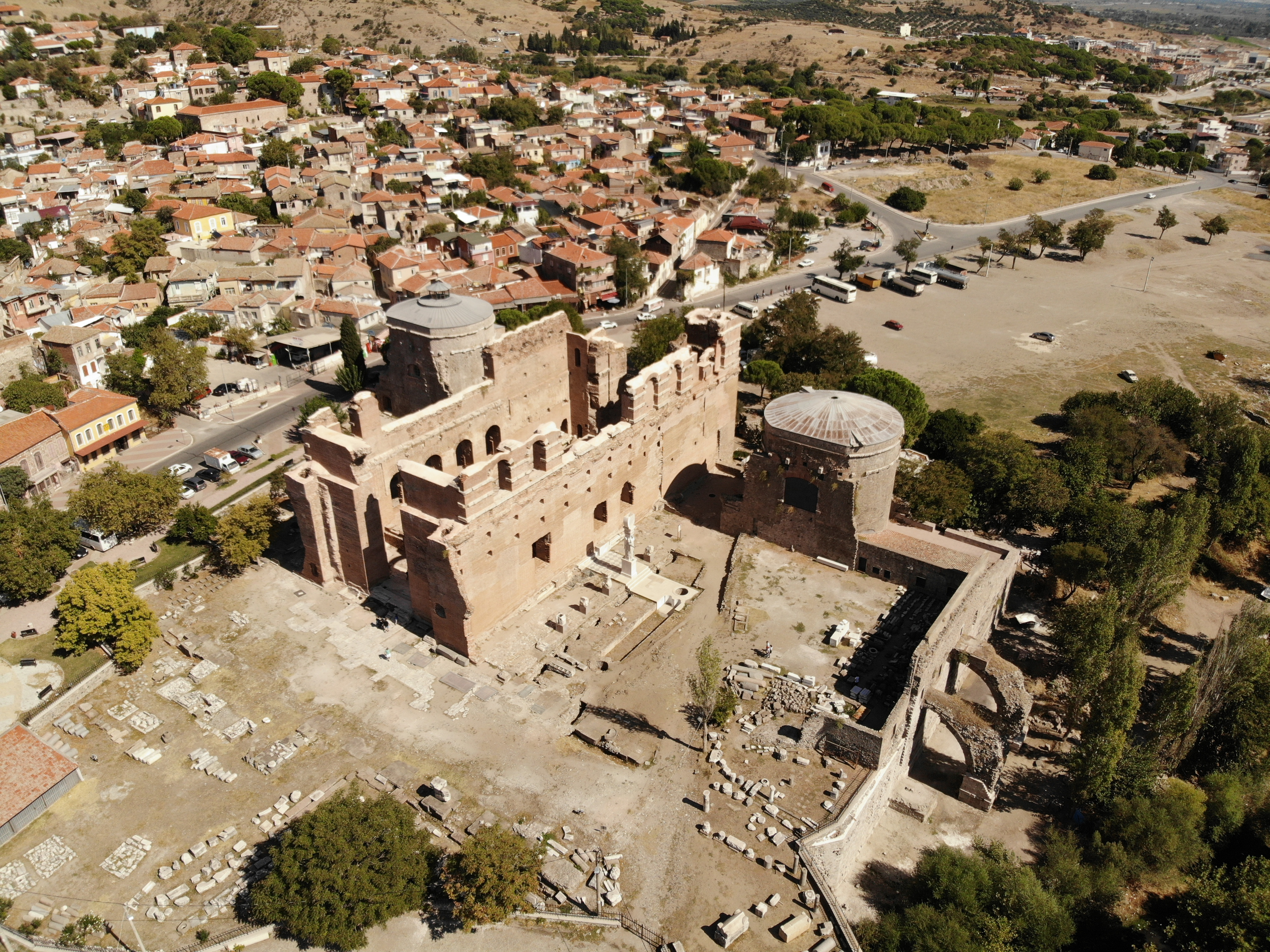 Aerial view of Red Basilica in Bergama, İzmir, Turkey.